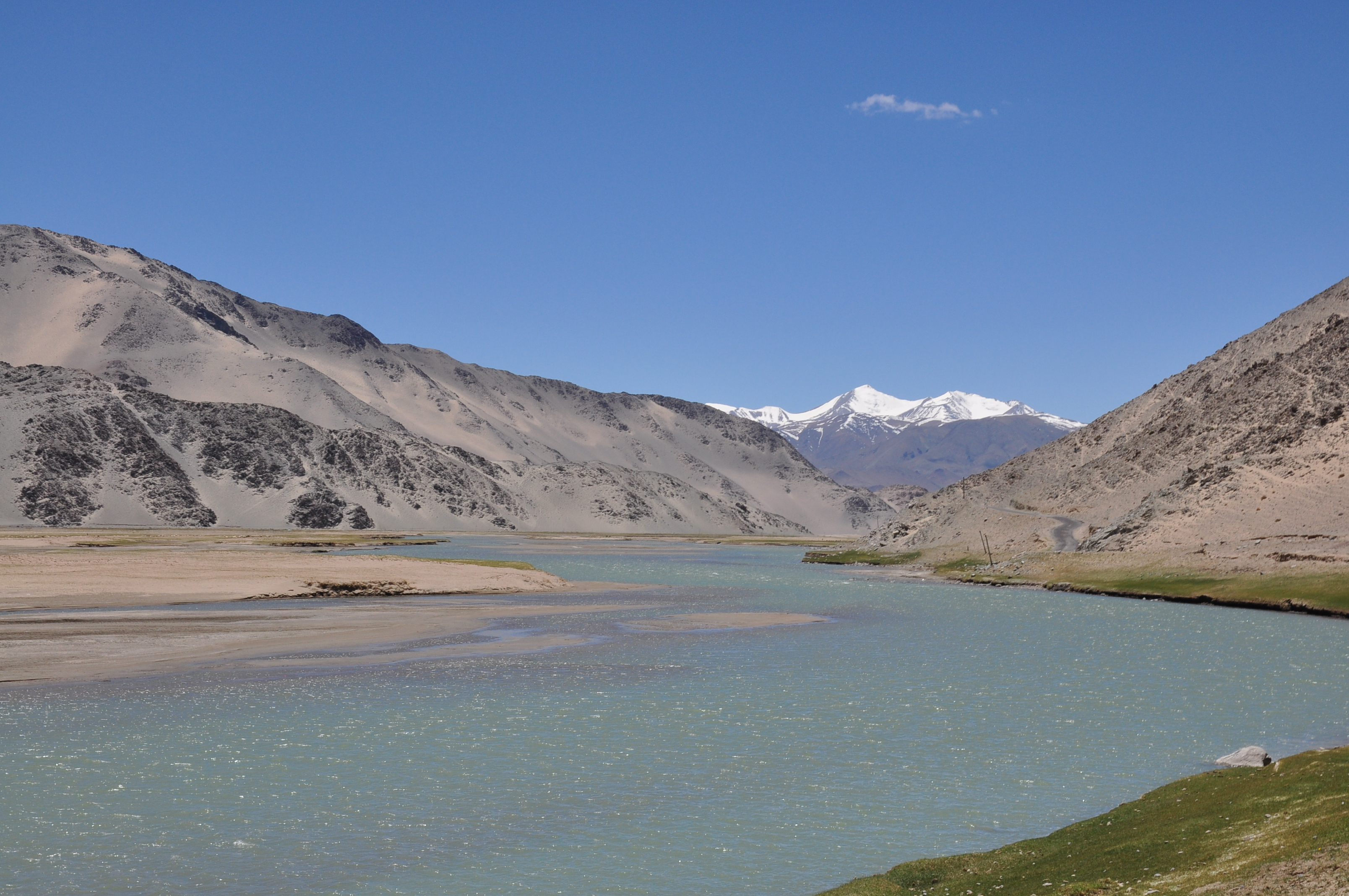 River Indus (Sindhu), District Ladakh, Jammu & Kashmir. This picture has been taken near to Chang La pass where this river crosses from China into India.